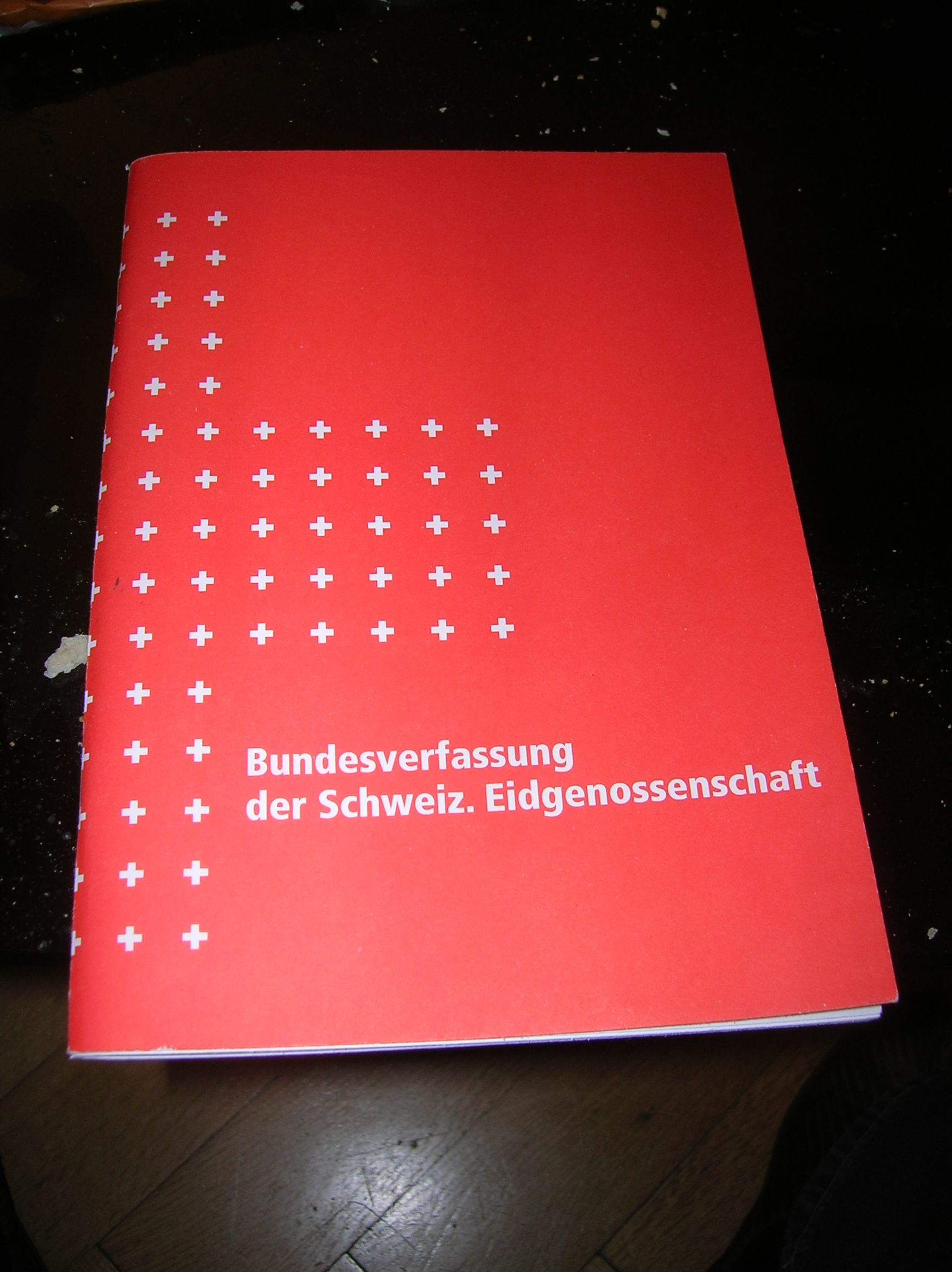 Cover of the official publication of Swiss Constitution in German Language